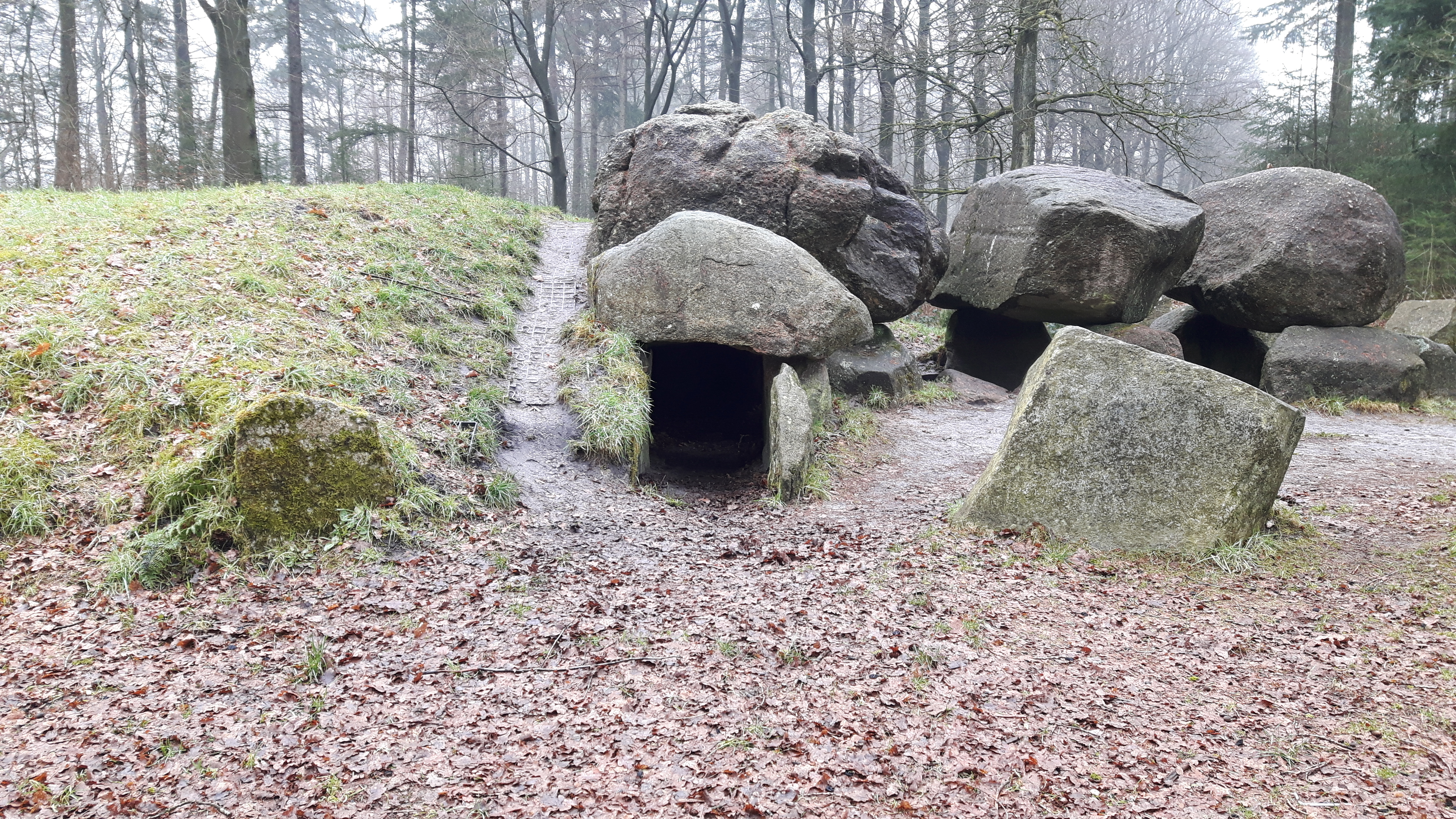 Dolmen D49